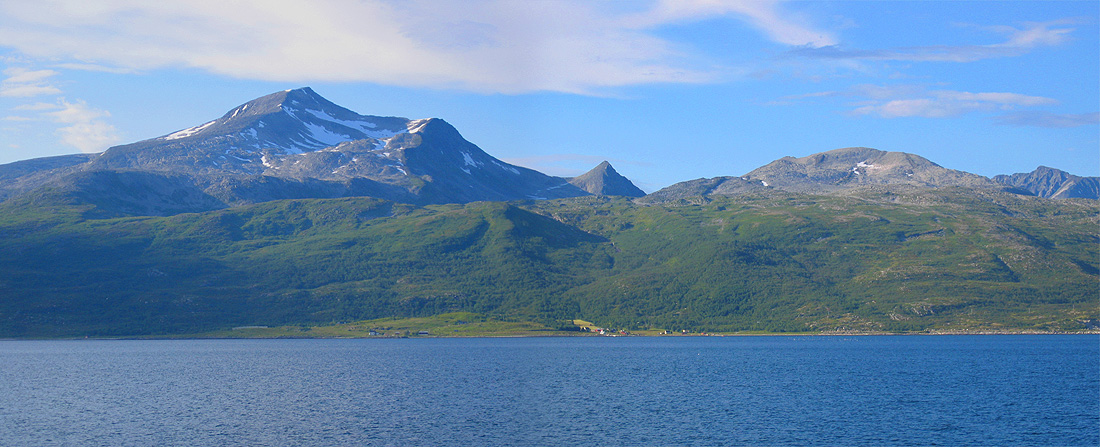 Vanna, Norway. View from the ferry.